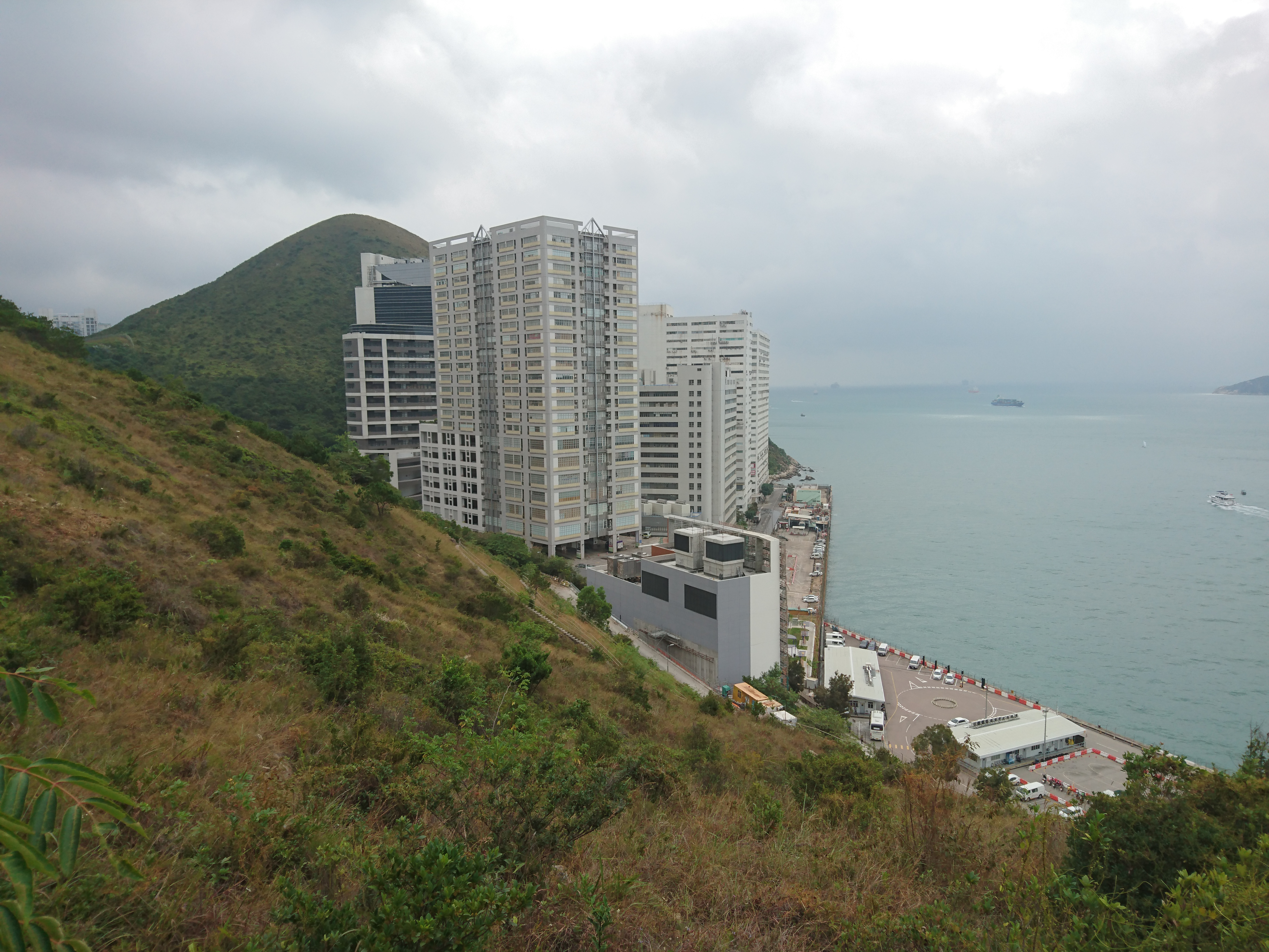 Lee Nam Road Industrial Area viewed from West Yuk Kwai Shan